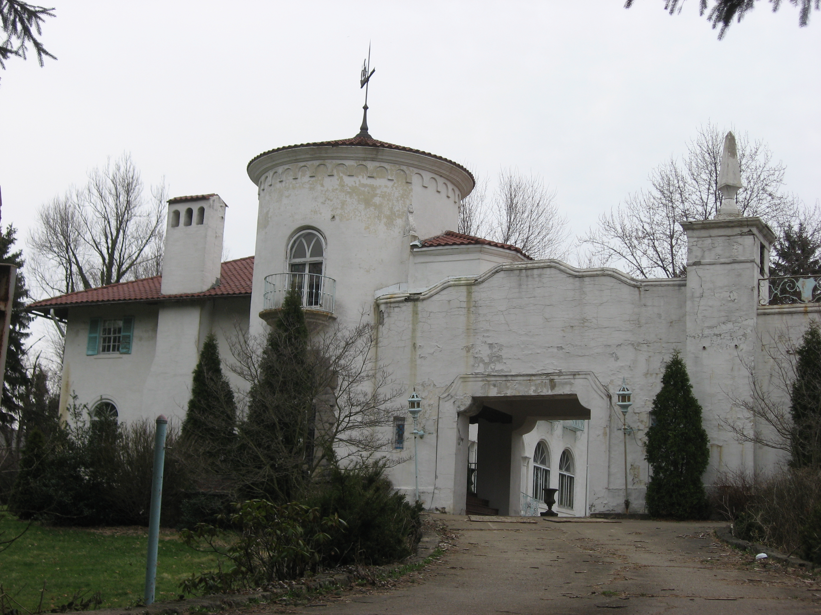 Front of the Richard L. Cawood Residence, located at 2600 St. Clair Avenue on the northern side of East Liverpool, Ohio, United States. Built in 1923, the house is listed on the National Register of Historic Places.